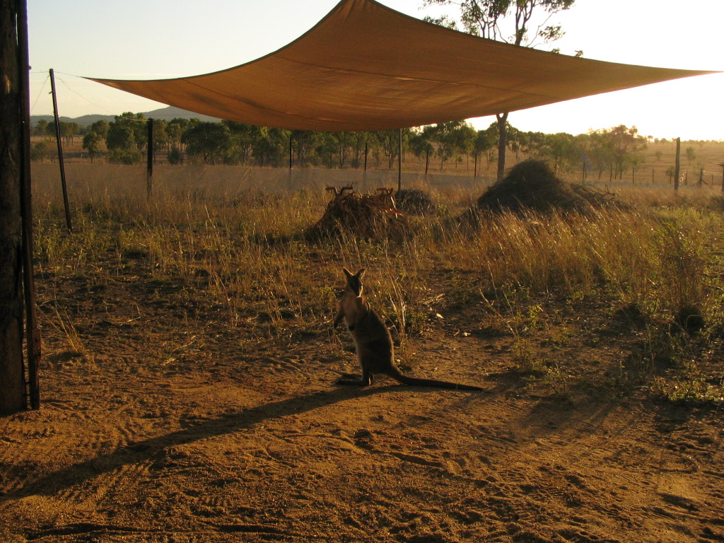 Photo I took of a Bridled Nail Tail Wallaby